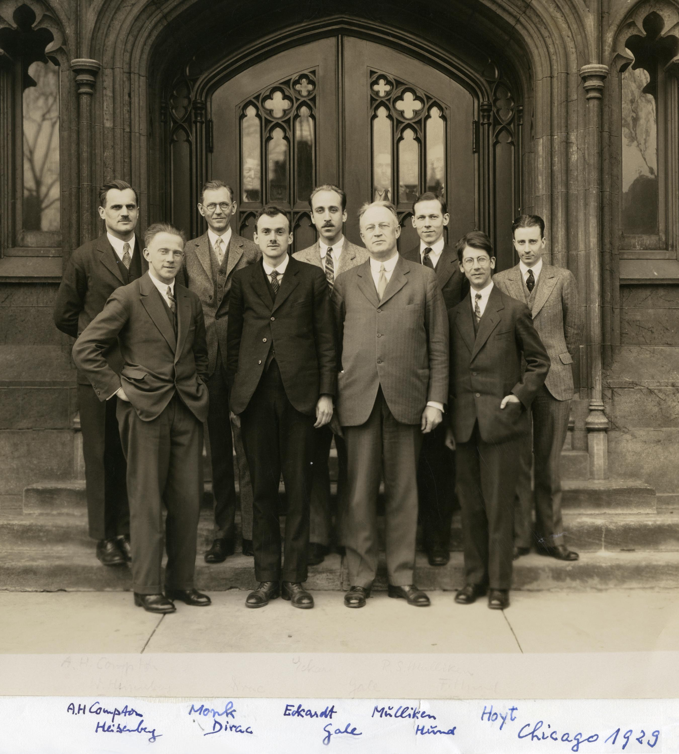 Chicago 1929 - Arthur Compton, Werner Heisenberg, Monk, Paul Dirac, Eckart, Gale, Robert Mulliken, Friedrich Hund and Hoyt (legend by Friedrich Hund)